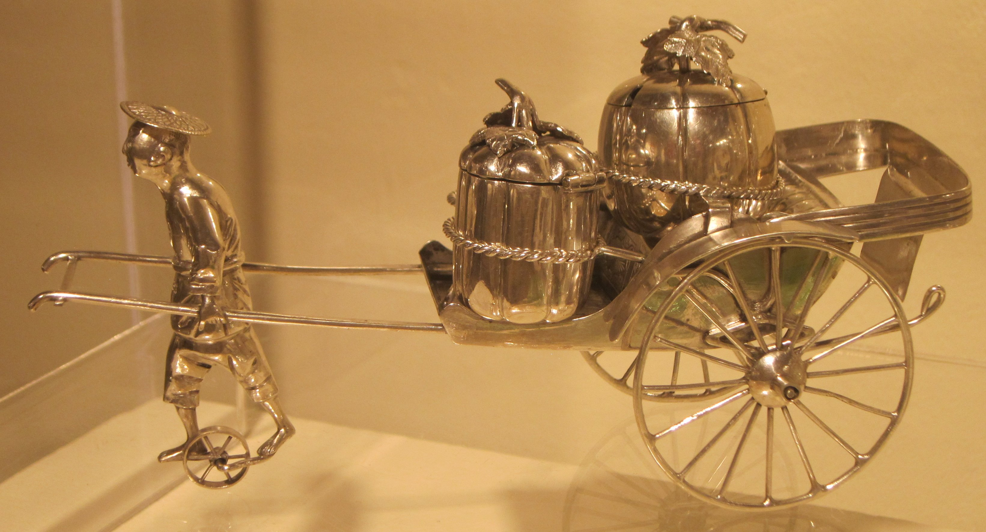 Silver spice cart from China, 20th century, Doris Duke Foundation